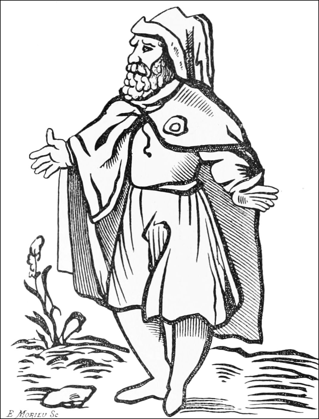 The Wandering Jew - Middle Ages